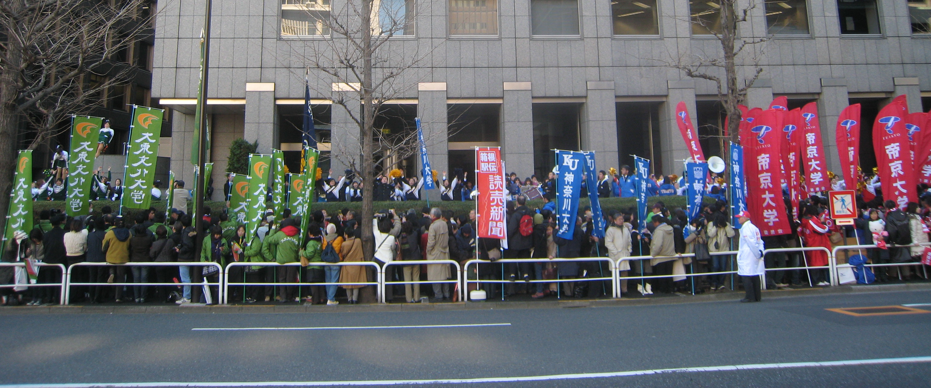 Typical streetside banners that can be seen throughout the Hakone Ekiden course in Tokyo.